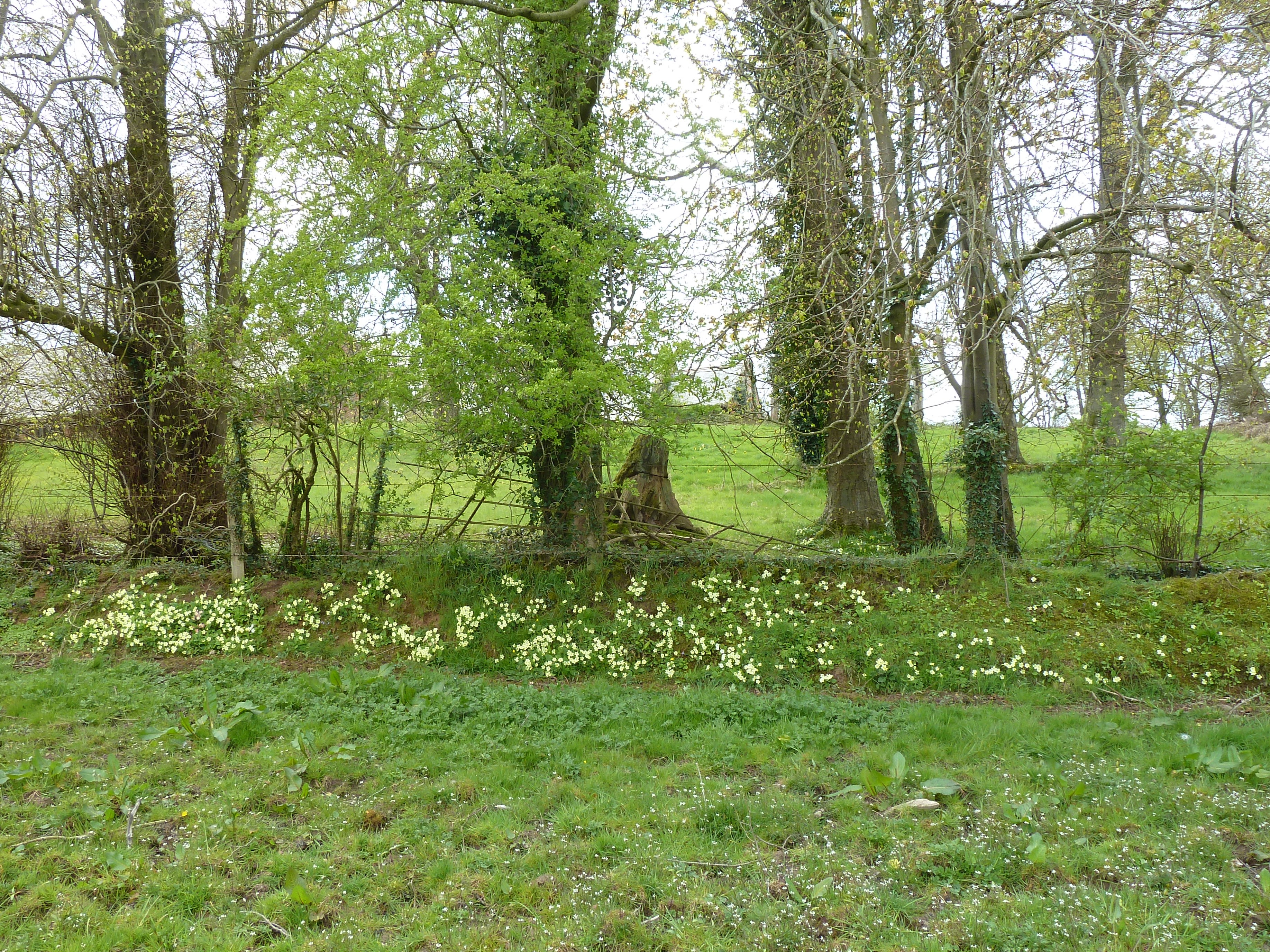 Knockbracken, Co. Down, Ireland beginning May Primula vulgaris